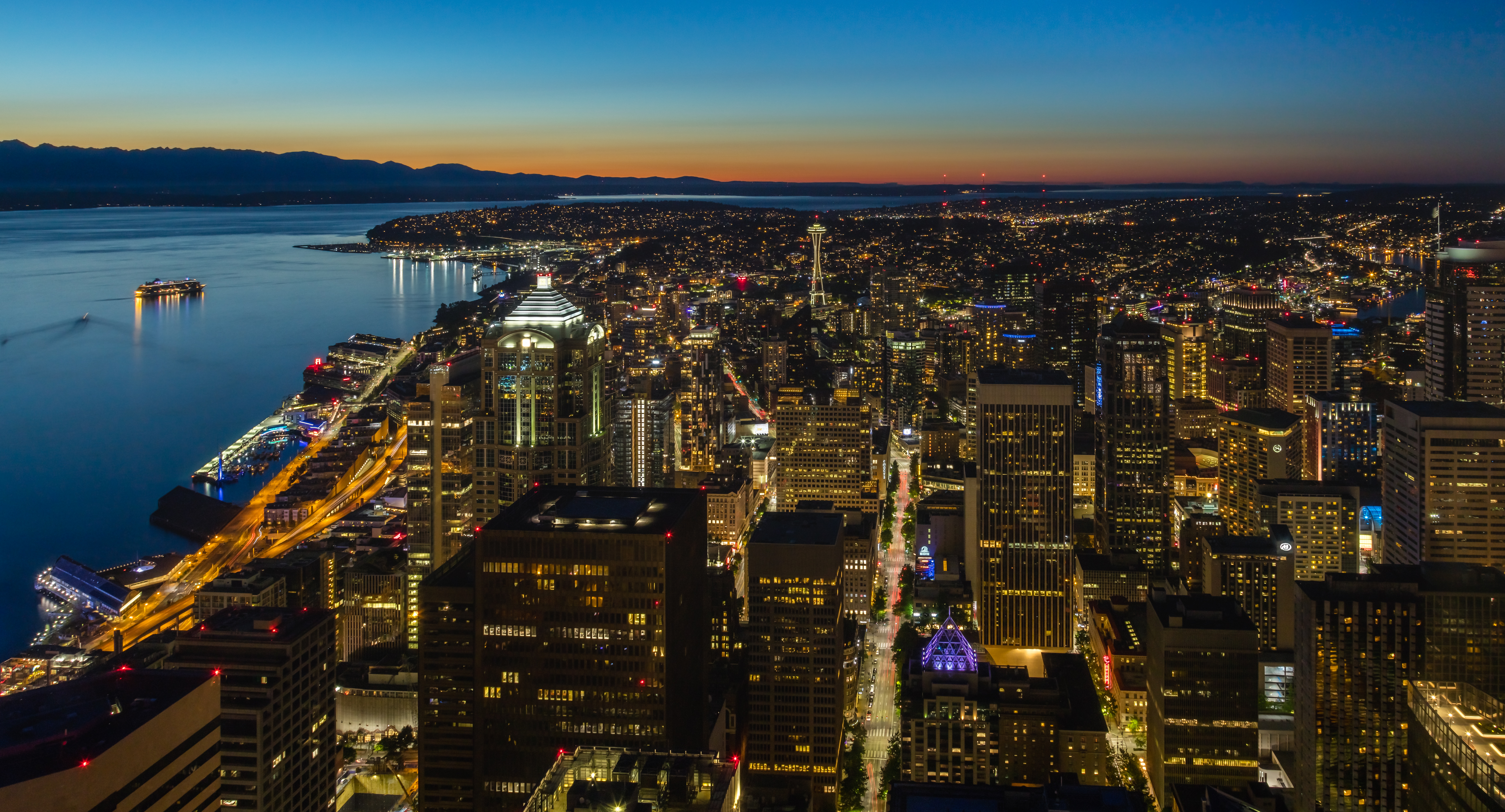 Cityscape of Seattle just after sunset, seen from the skyscraper Columbia Center at 701 5th Avenue, Seattle, Washington, USA.